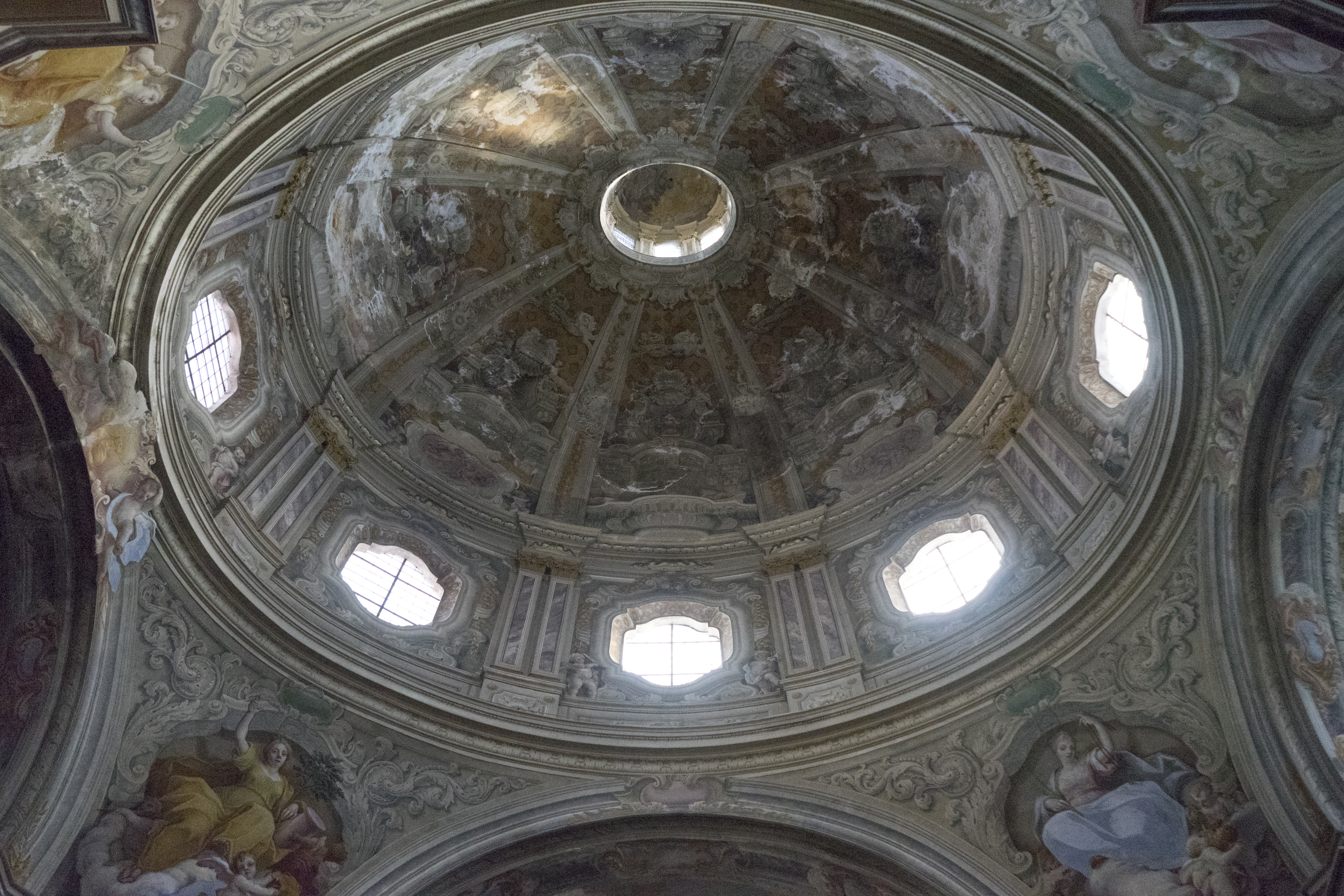 This is a photo of a monument which is part of cultural heritage of Italy.